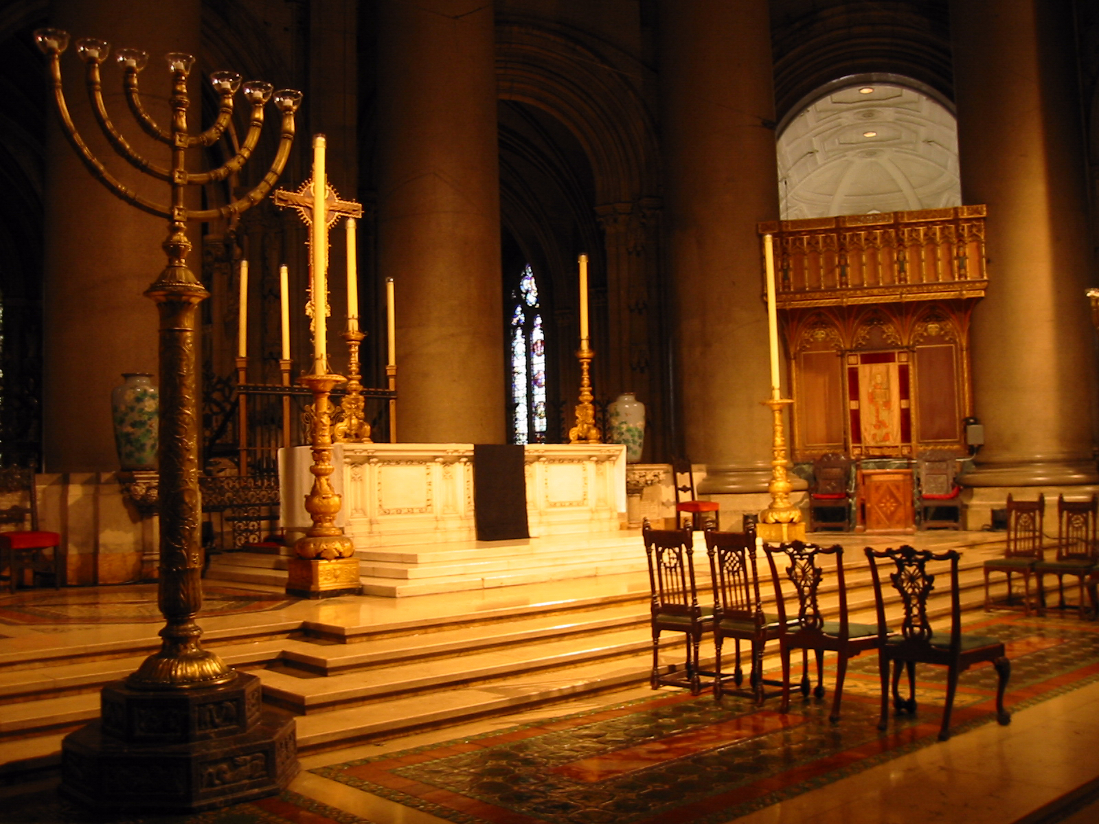 Altar area of Cathedral of Saint John the Divine, New York City